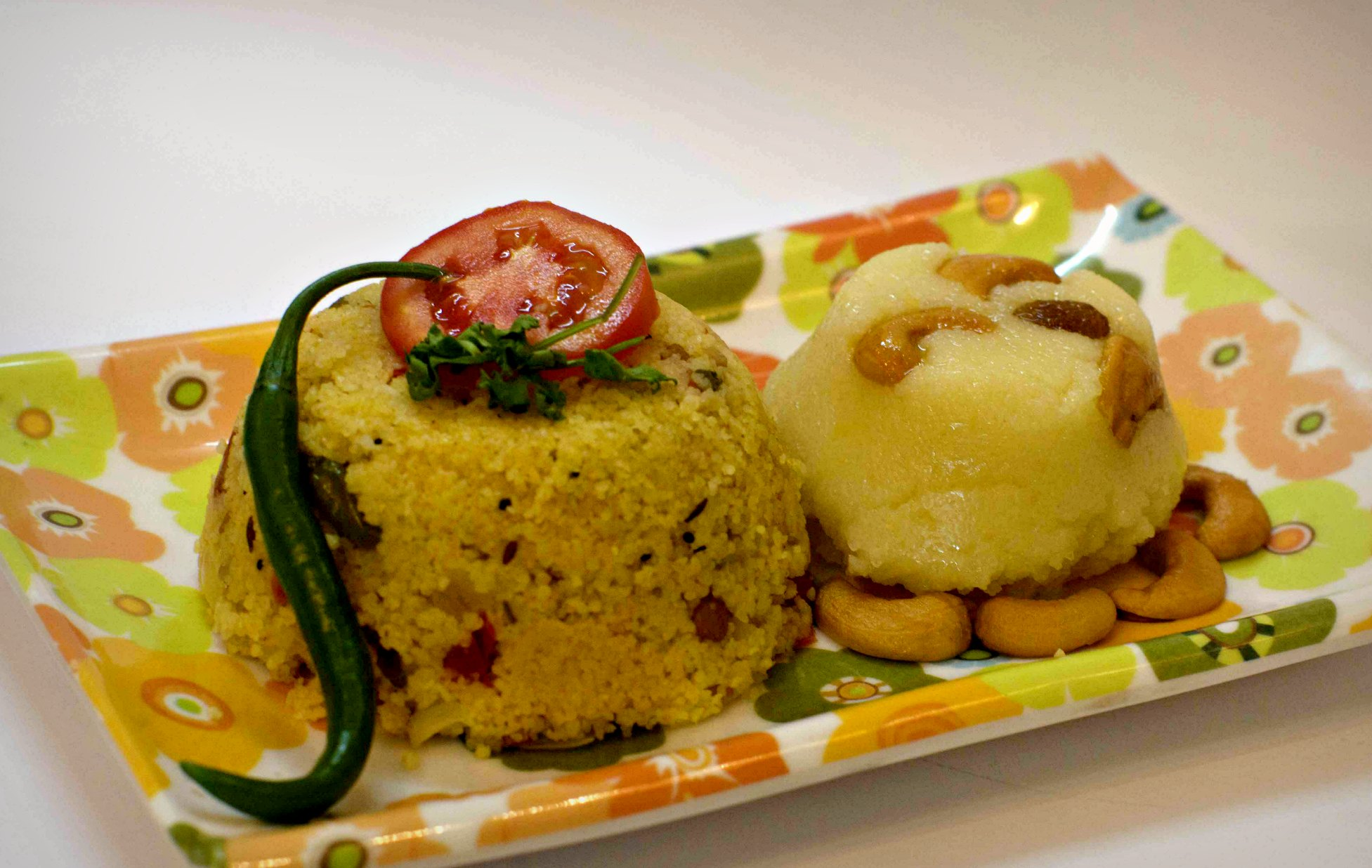 one of the most famous breakfast of Karnataka is this Chow Chow bath which consists of one serving of the spicy kharabath and another of a sweet kesaribath.sometimes seasoned with tomato and pineapple too. This dish is a delicious breakfast choice in karnataka and has to be had together-a bit of both spicy and sweet in a single bite